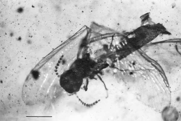 Dorsal view of Kachinitermopsis burmensis (syn=Kalotermes burmensis) Bar = 690 μm.